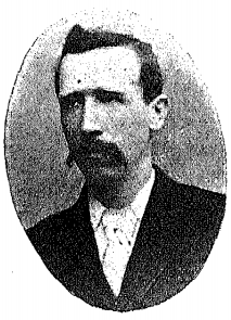 Thomas Mallalieu, Secretary of the Felt Hatters' and Trimmers' Unions of Great Britain